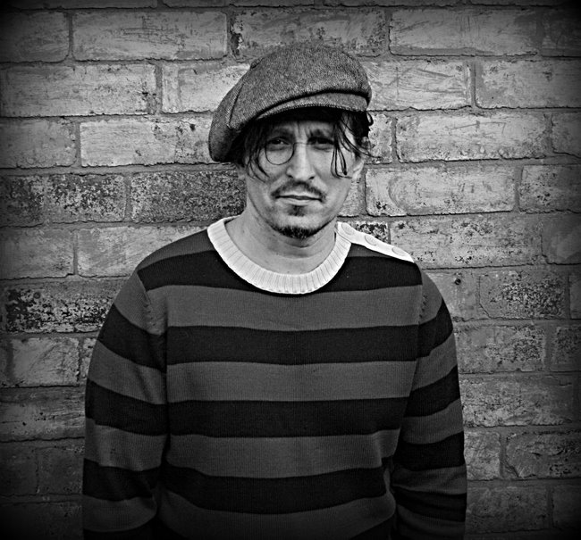 Jack C. Mancino Abstract Expressionist Painter